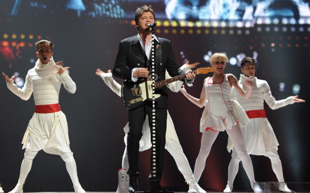 Macedonian rock singer Vlatko Ilievski at Eurovision Song Contest 2011